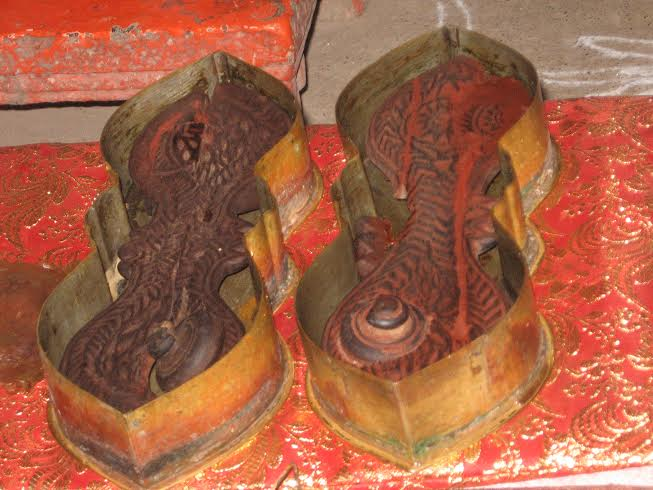 paduka babaji math